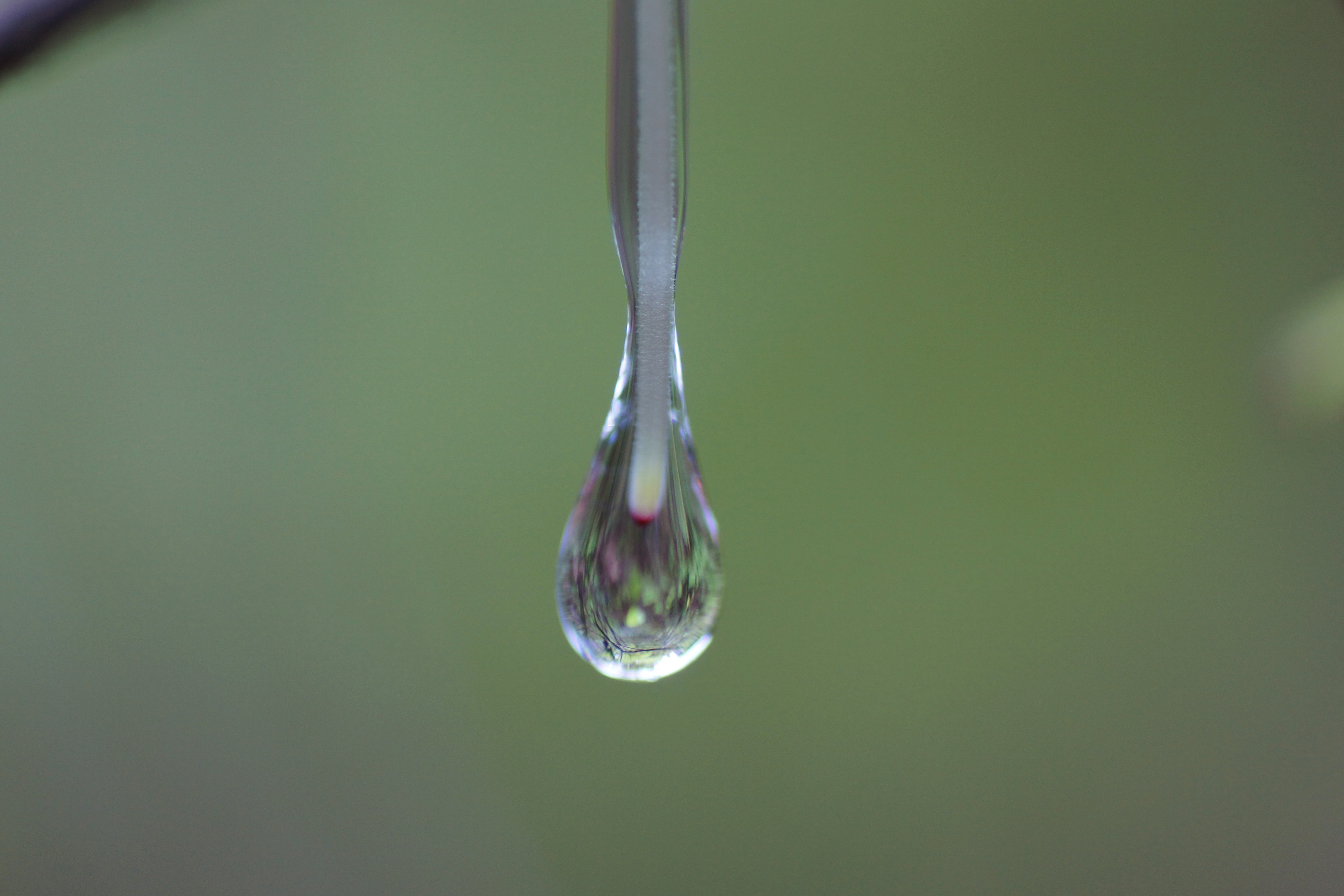 Pullenna